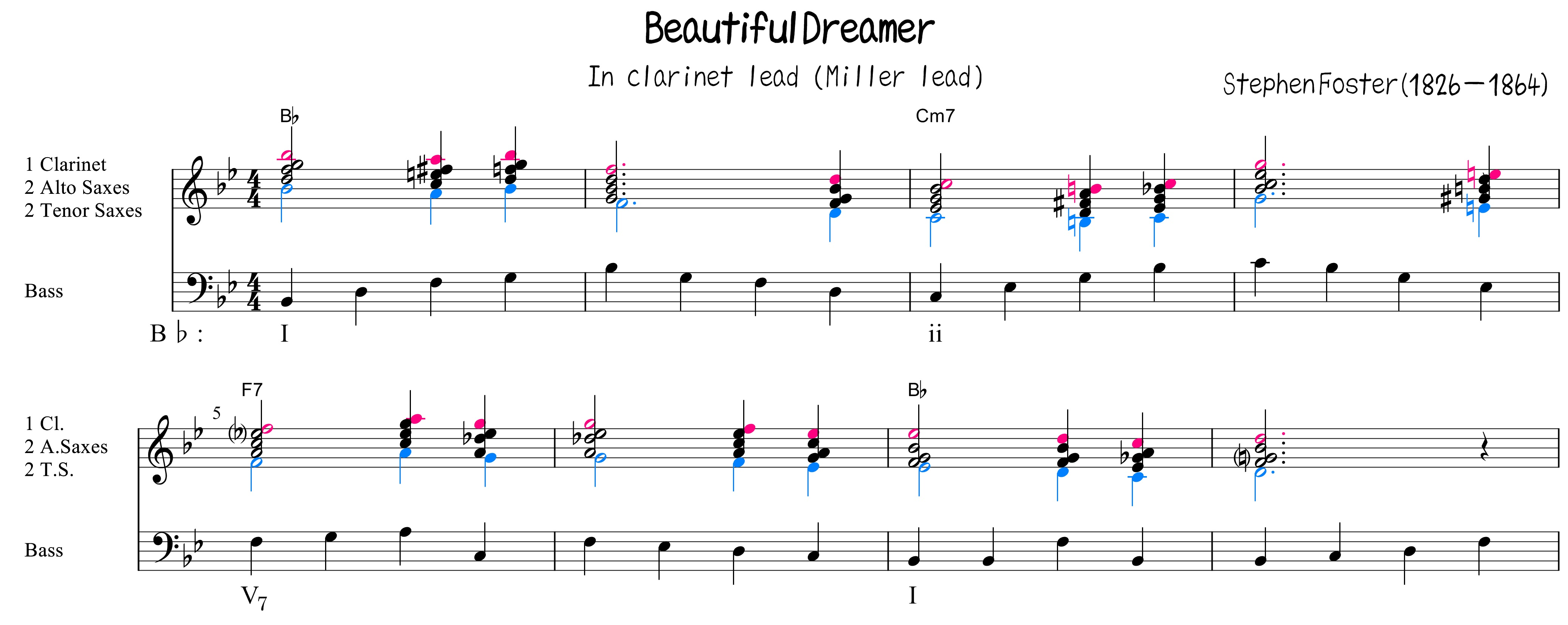 A sample of clarinet lead (or Miller lead) famous for the Glenn Miller orchestra. A part of "Beautiful Dreamer" composed by Stephen Foster (1826 - 1864).